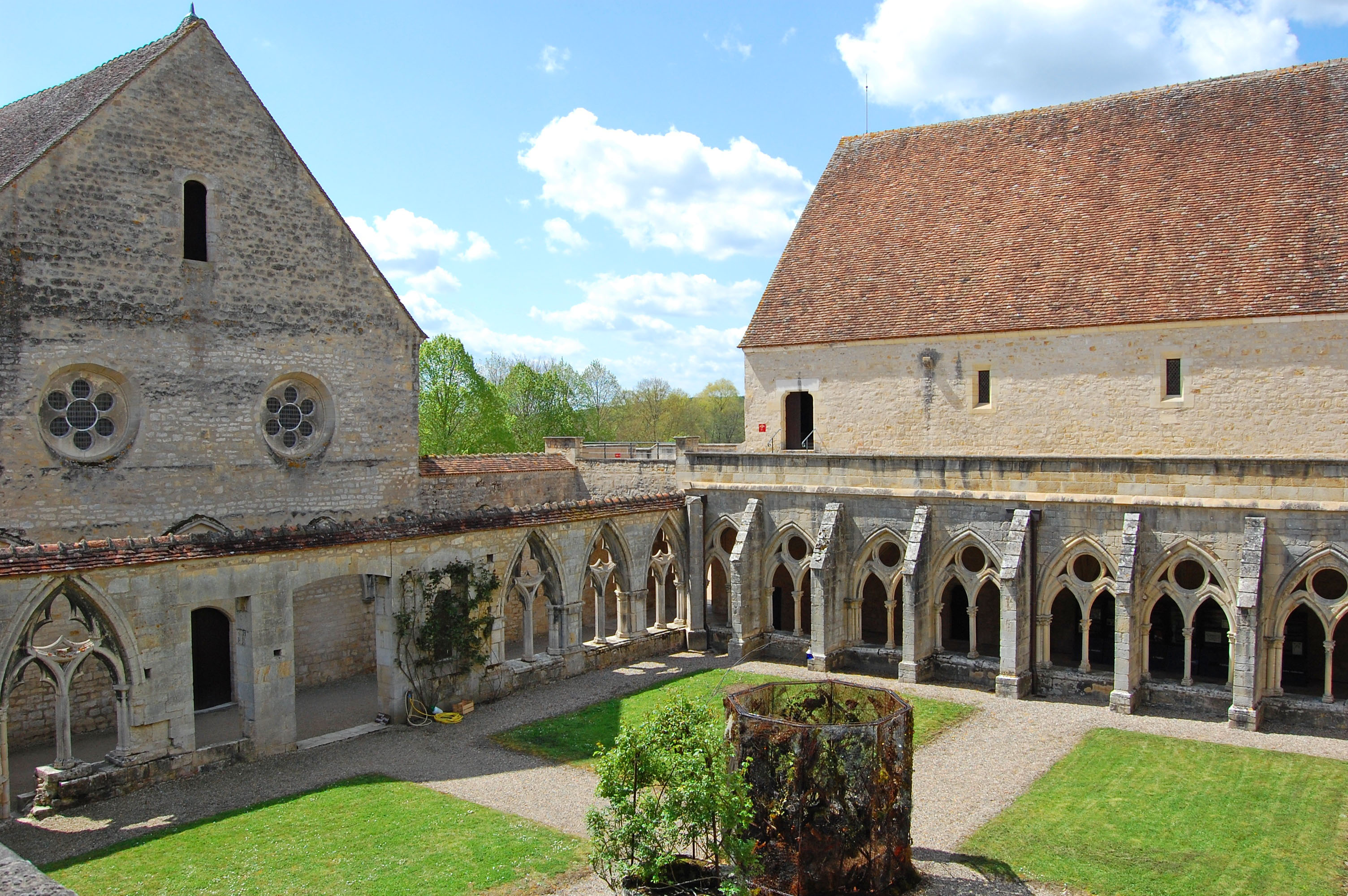 Cloister of the Noirlac Abbey in Cher department of France